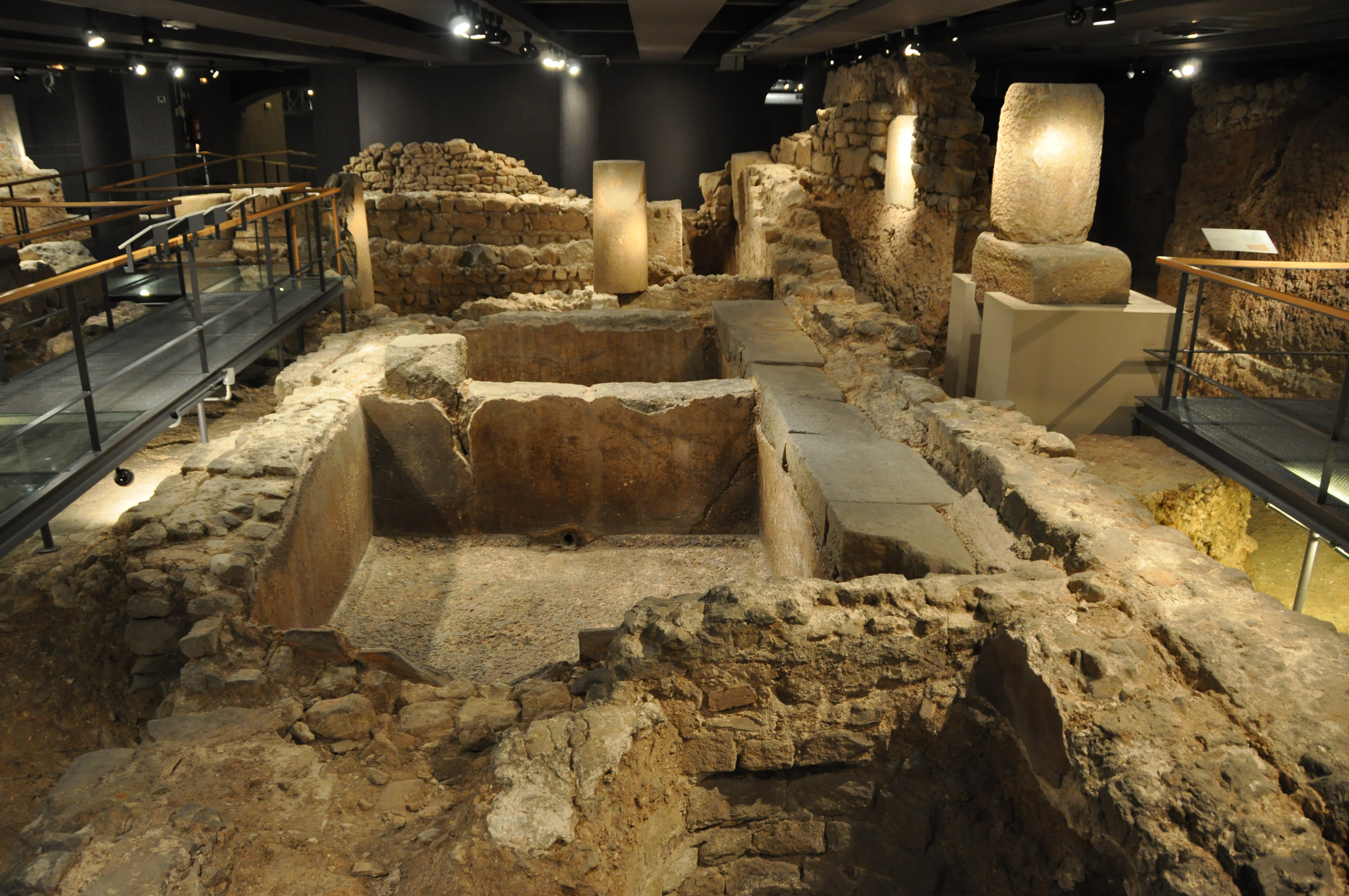 MUHBA Barcelona arcaeological underground roman salted fish and garum factory